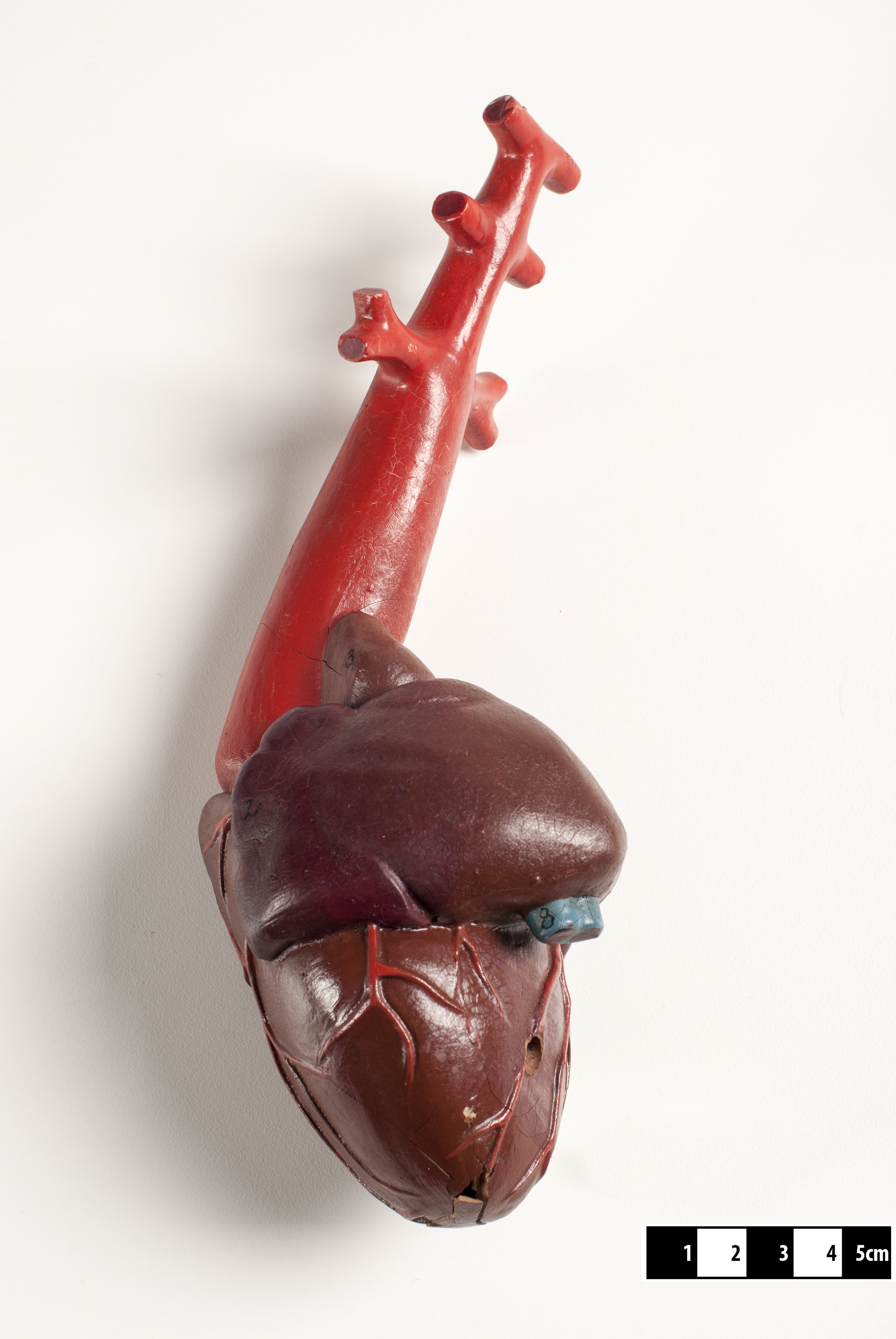 Didactic model of a fish heart. Teaching model representing different parts of the fish heart on display at the Museum of Veterinary Anatomy, FMVZ USP. This file was published as the result of a partnership between the Museum of Veterinary Anatomy FMVZ USP, the RIDC NeuroMat and the Wikimedia Community User Group Brasil. This GLAM project is reported. Photography: Museum of Veterinary Anatomy FMVZ USP.